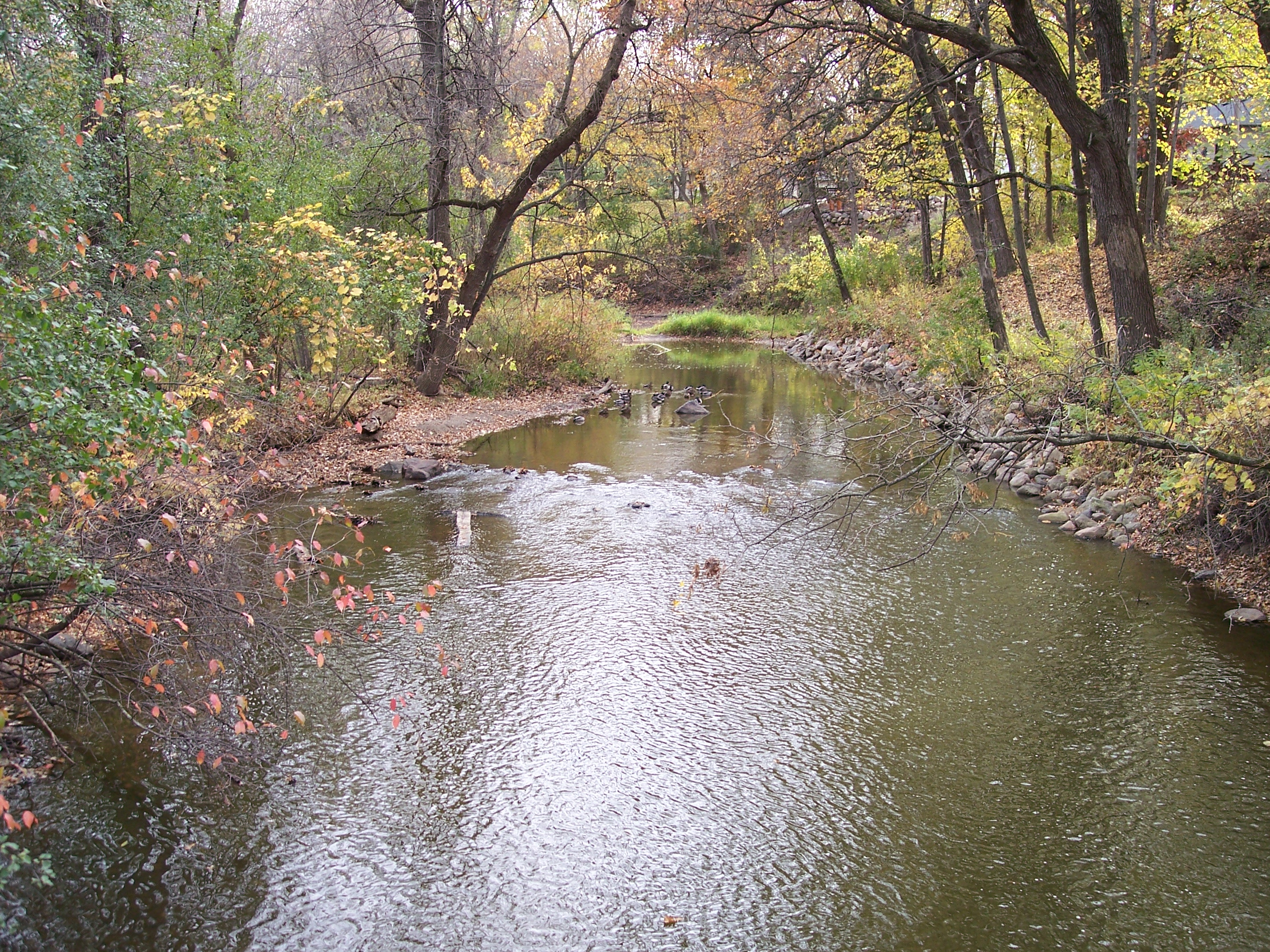 Rice Creek (Minnesota) as viewed from the Rice Creek West Regional Trail in Fridley, Minnesota